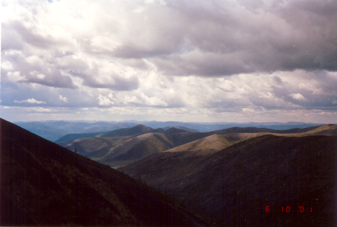 Somewhere in the beautiful Cherskiy Mountains of the Russian Far East